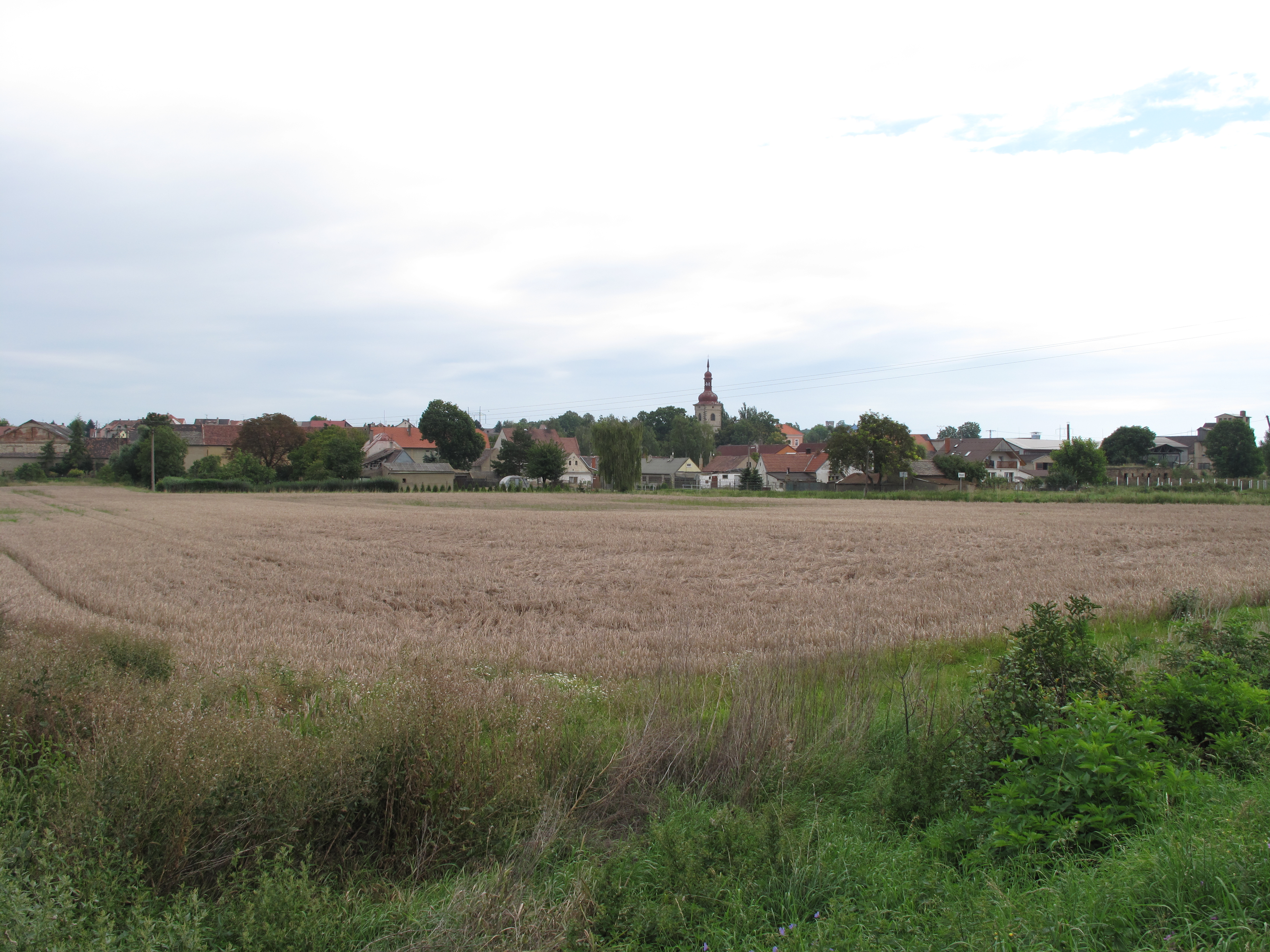 Siřejovice village as seen from the west, Litoměřice District, Czech Republic.